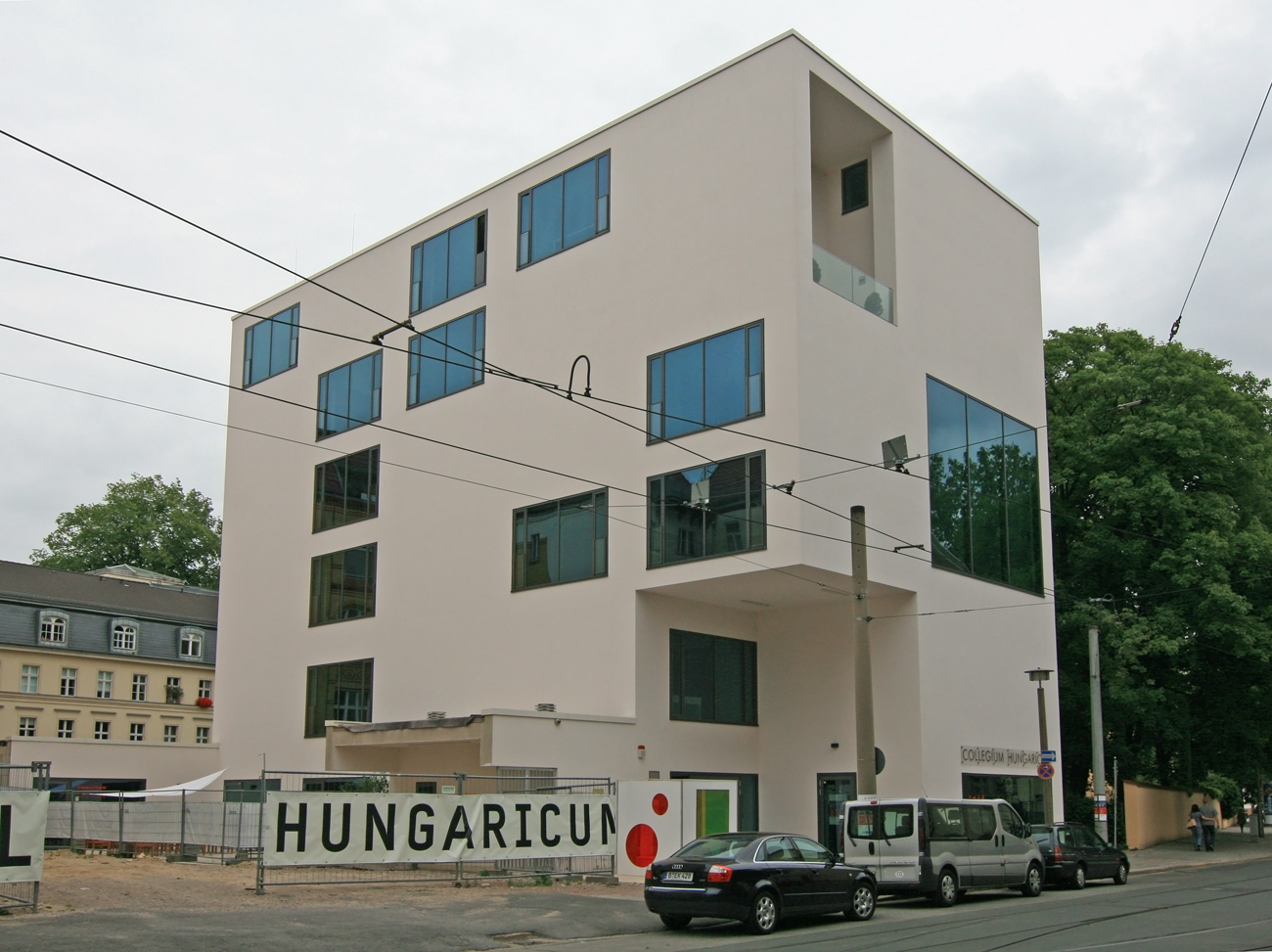 Collegium Hungaricum Berlin (.CHB)- Ungarisches Kultur- und Wissenschaftliches Institut, Dorotheenstr. 12